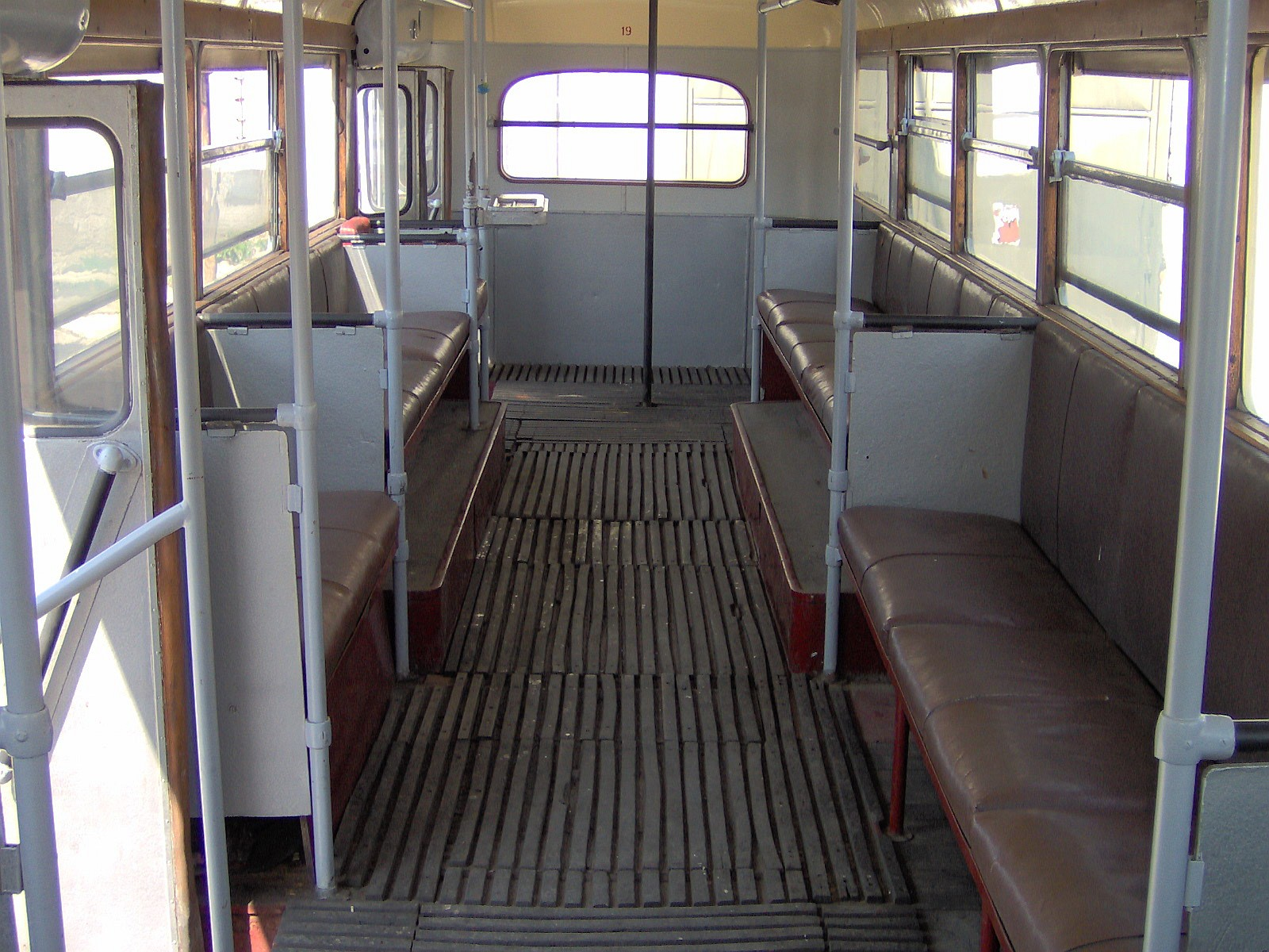 Interior of historical trolleybus Tatra T 400 in Brno, Czech Republic.